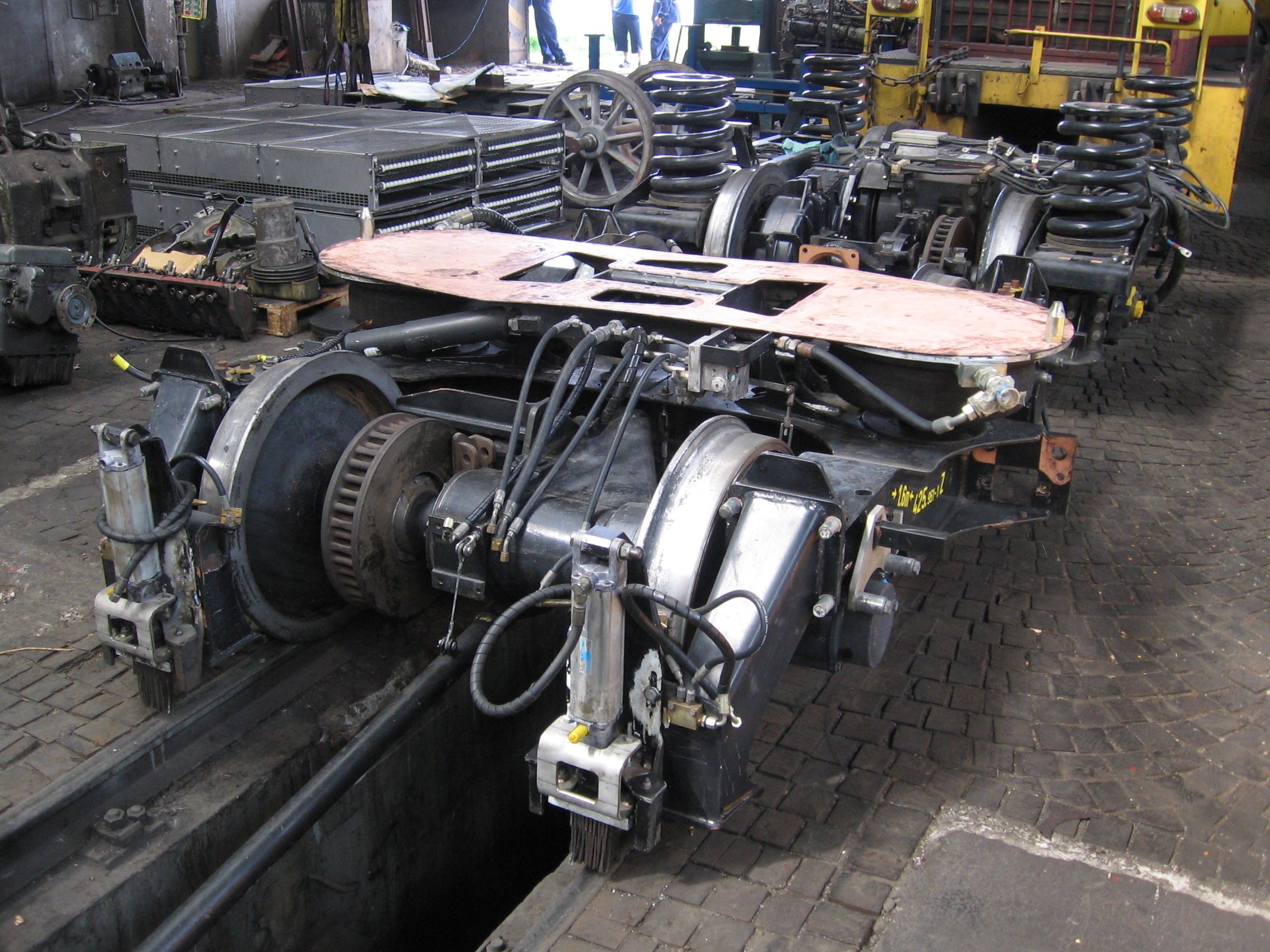 Trailing bogie of ZSSK EMU Class 425.95